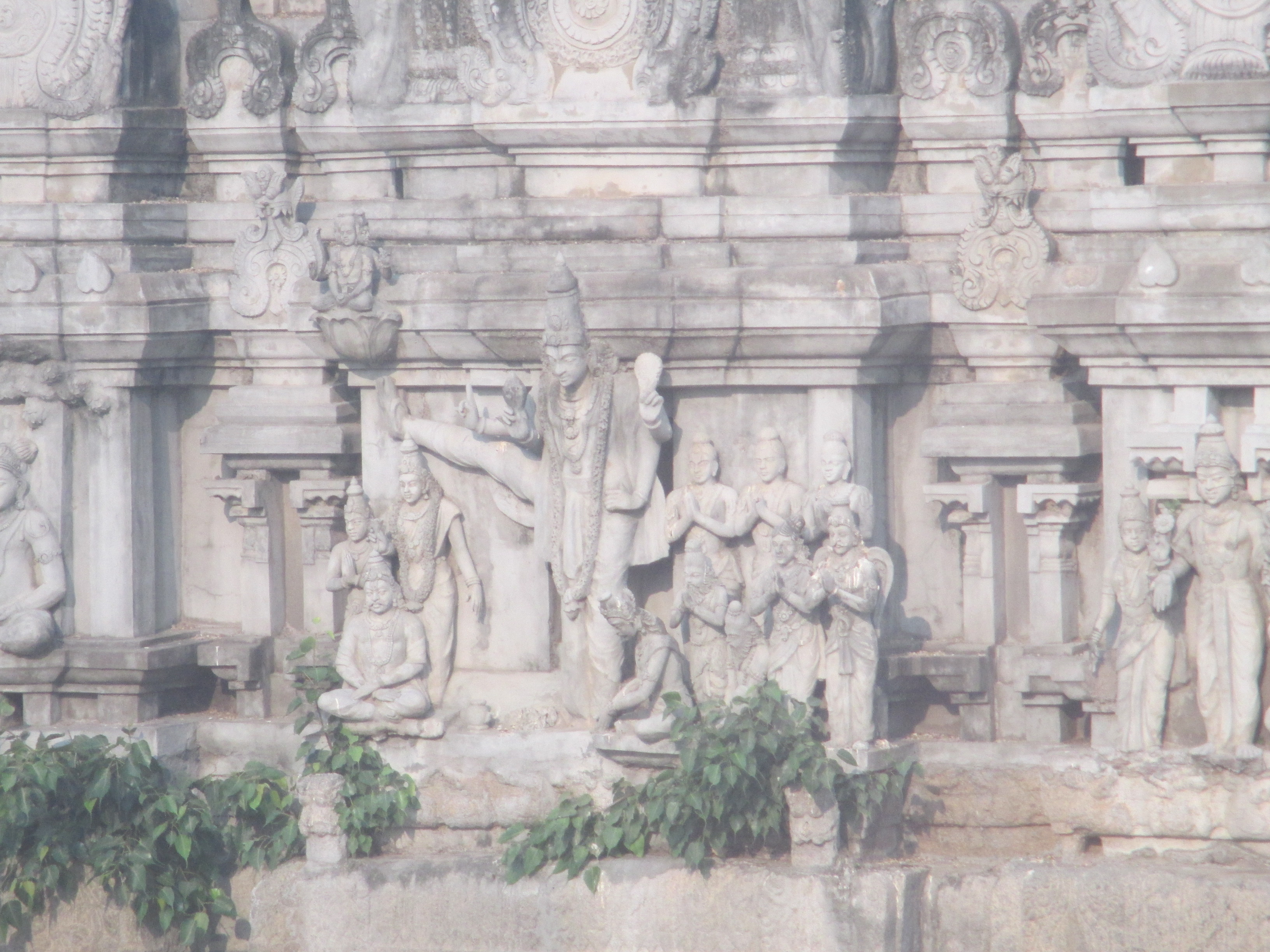 Ulagalantha Perumal Temple, Tirukoyilur